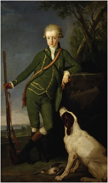 Nikita Petrovich Panin as a Child (1779), by Pyotr Sokolov